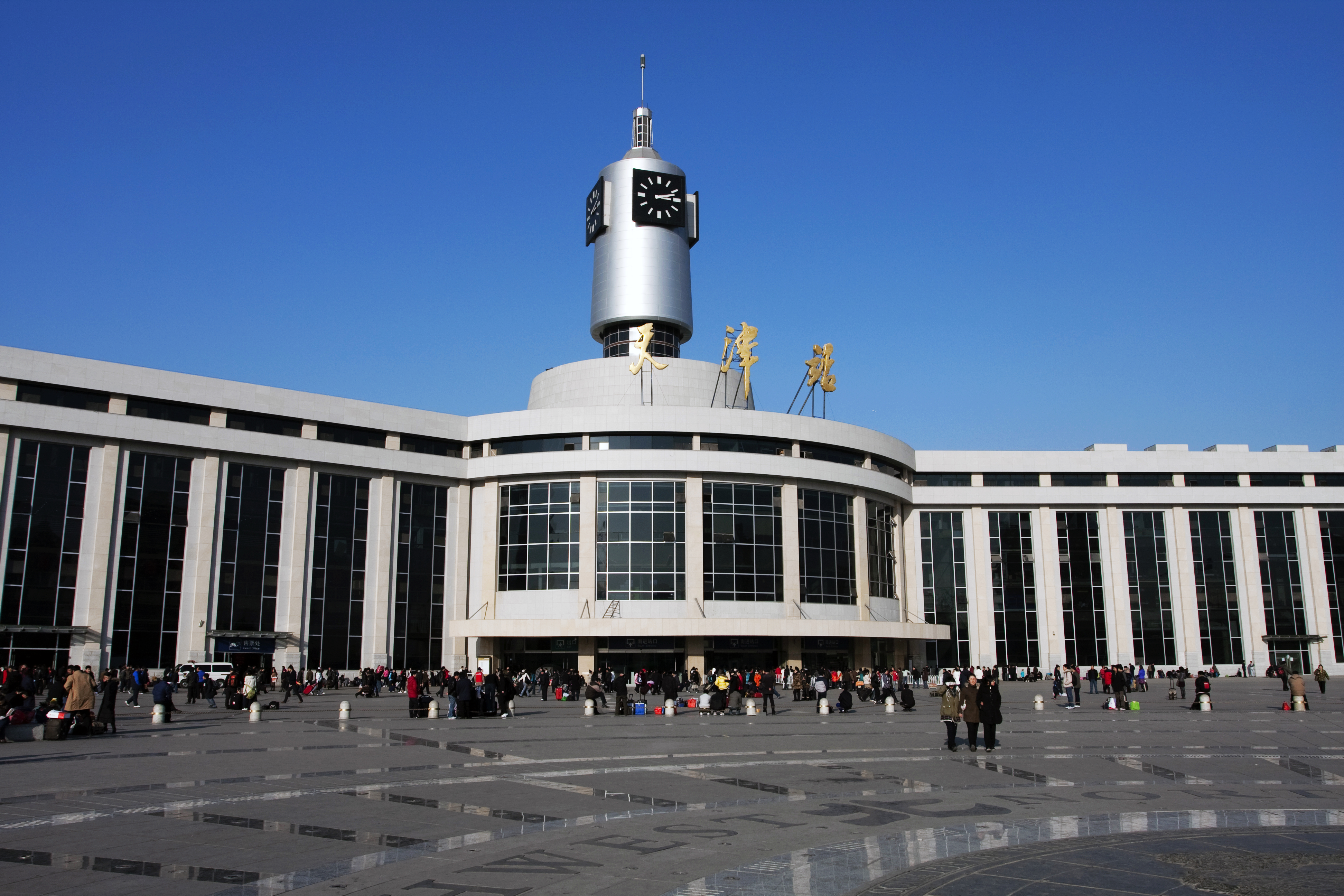 天津站, 和谐号就在这里坐 — Tianjin Railway Station.